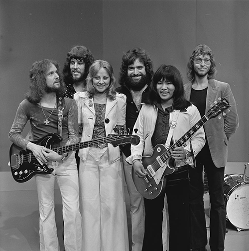 George Baker Selection in AVRO's TopPop (Dutch television show) in 1974